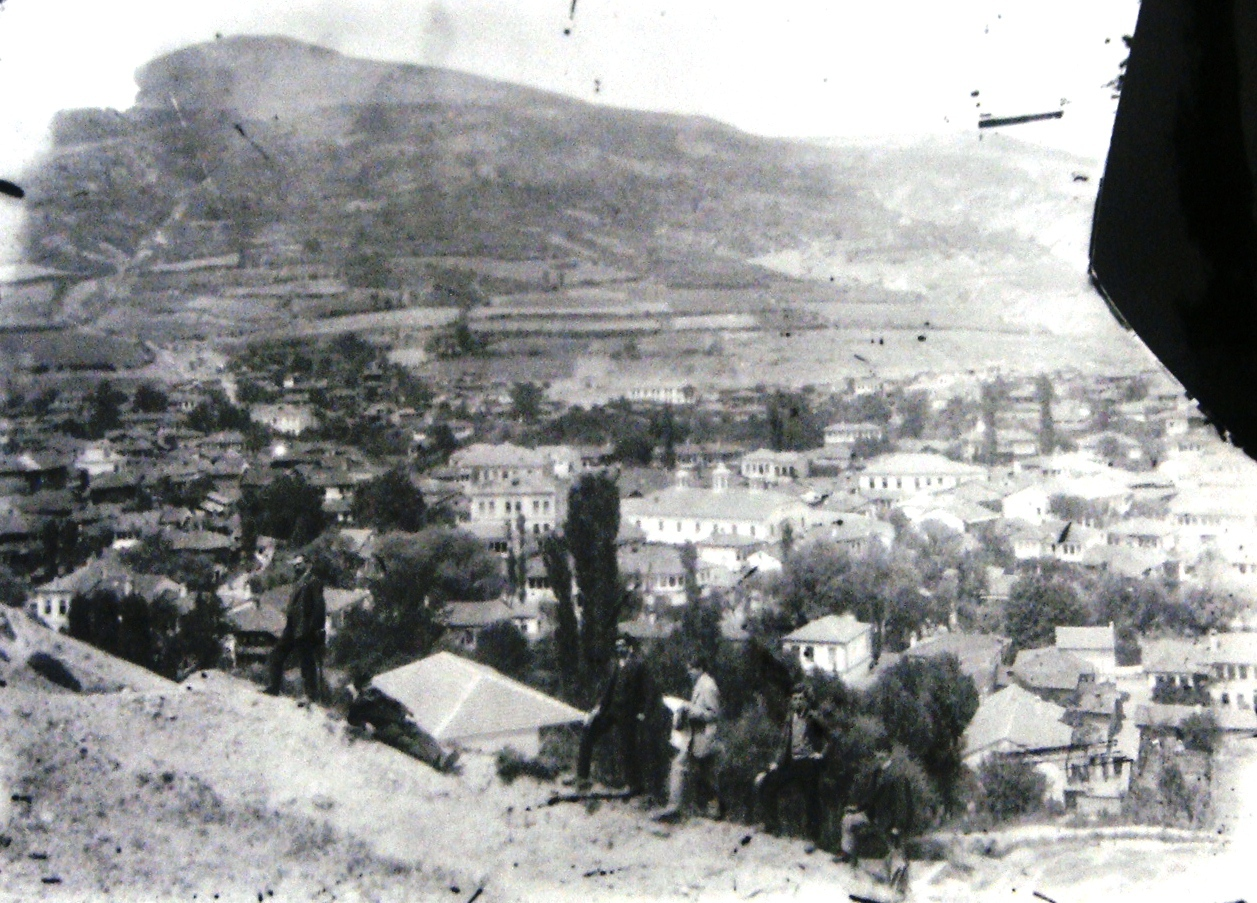 Panorama of the city of Florina. 1898-1912 (Broken glass plate) This media file is produced by Wikipedian in Residence in Category:Wikipedian in Residence at DARM in 2016.